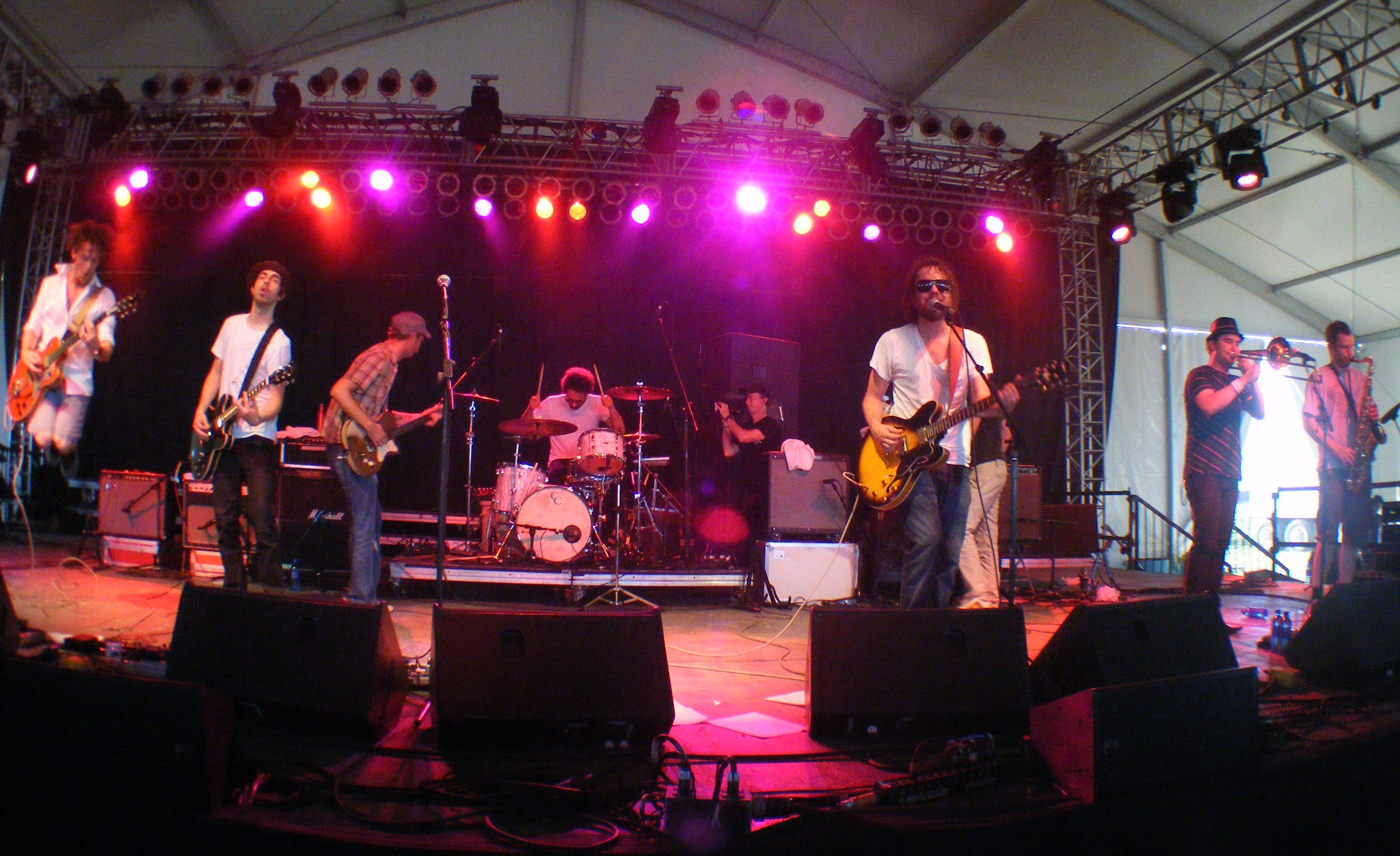 Broken Social Scene performing at the 2008 Bonnaroo Music & Arts Festival.